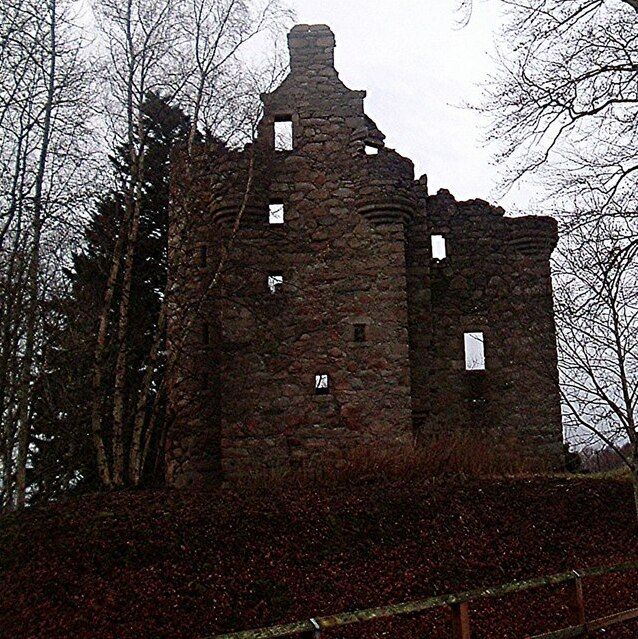 Corse Castle Mid-16th century structure.